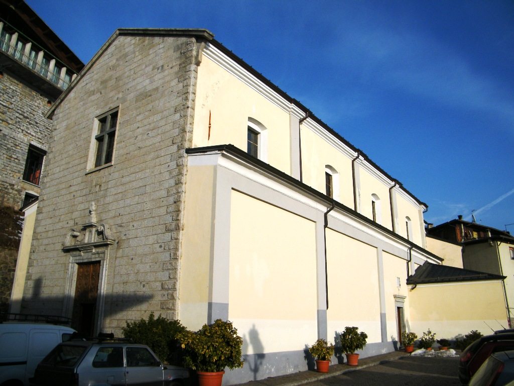 Church of Saint Vigilius. Cevo, Val Camonica.